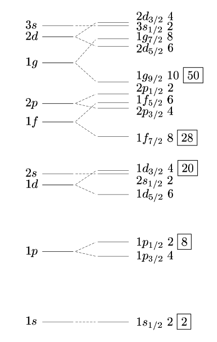 Nuclear shells and magic numbers in a harmonic oscillator with orbit–orbit and spin–orbit terms